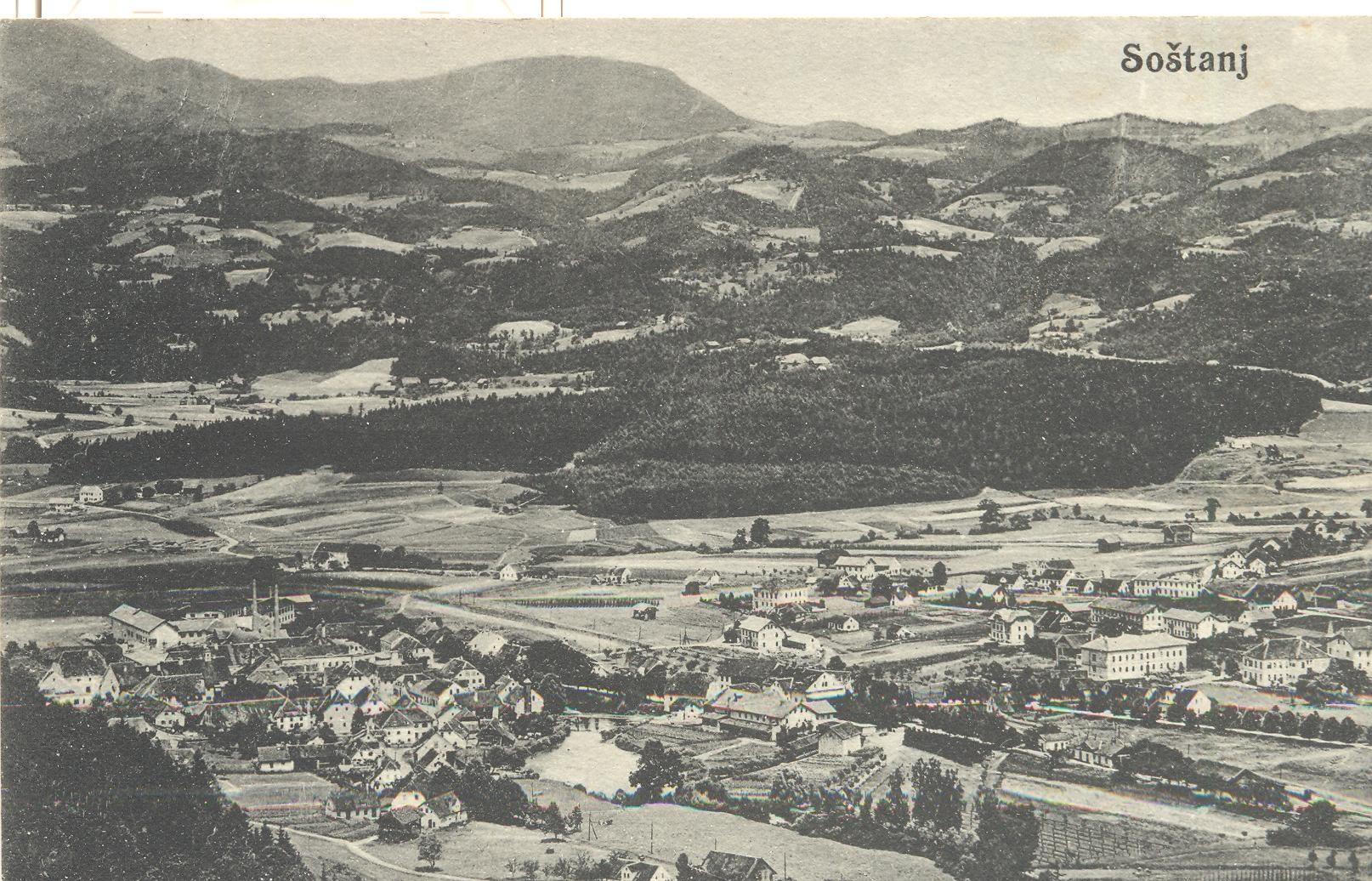 Postcard of Šoštanj.